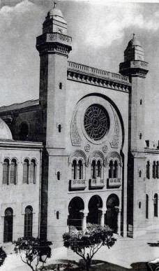 A postcard depicting the Oran synagogue.